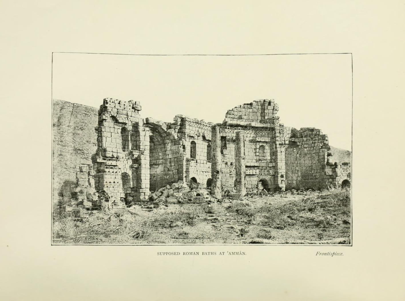 Drawing of Nymphaeum at Amman, Jordan in 1889 - "Supposed Roman baths at Amman" - frontispiece from The survey of eastern Palestine by the Palestine Exploration Fund